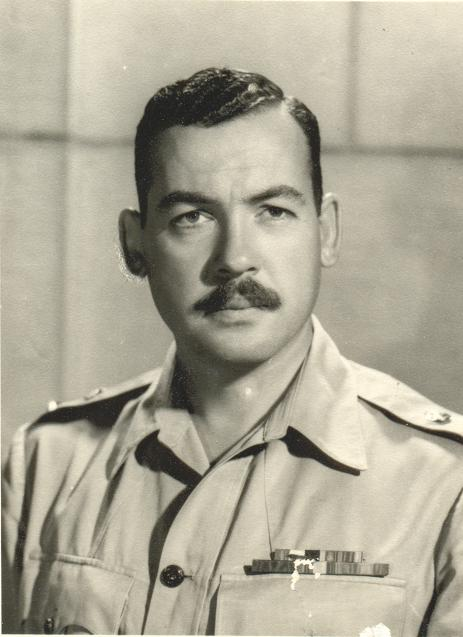 Hussein el-Shafei in his military suit. (Author: Hussein Al Shafei the grand-son)